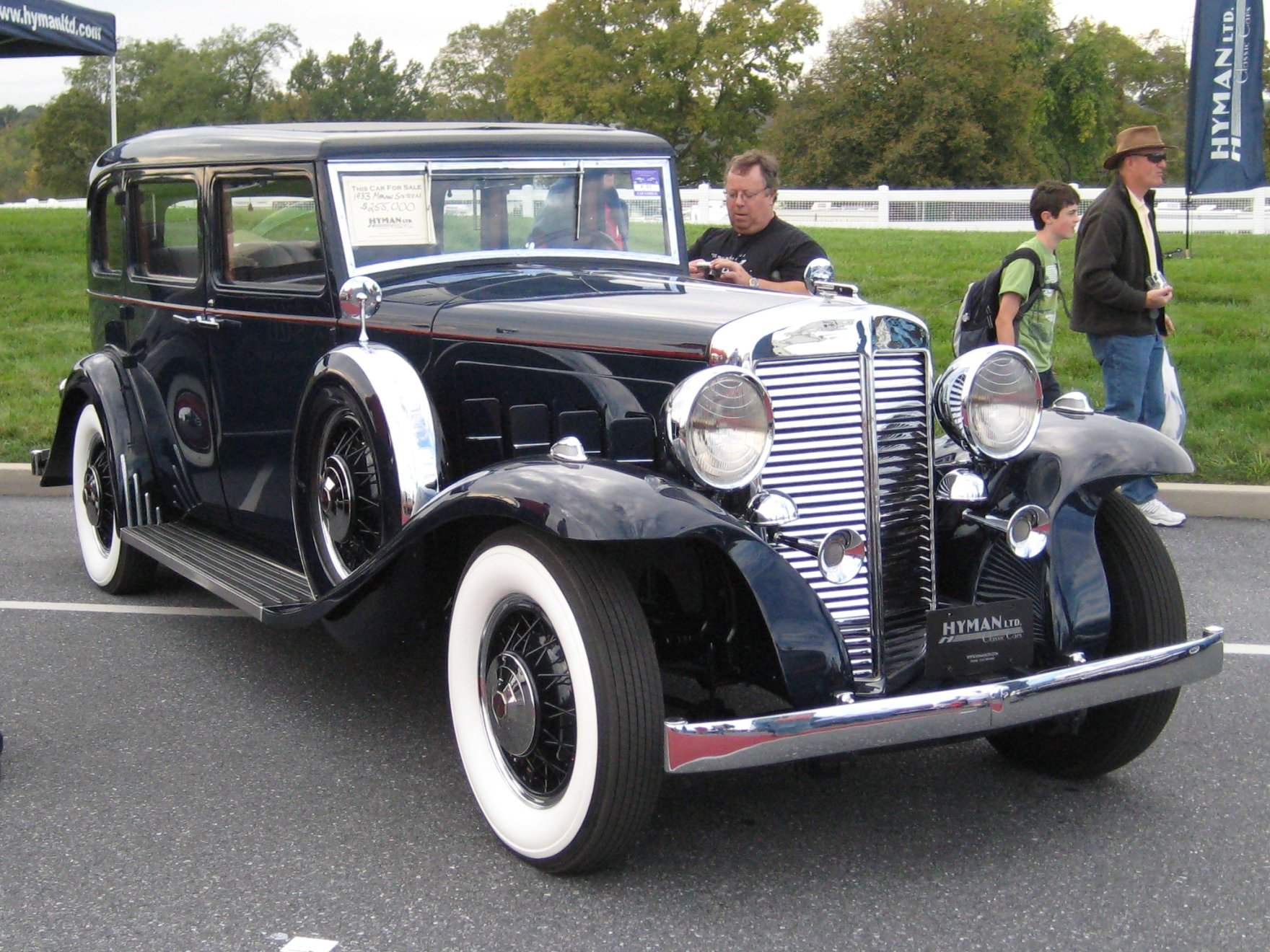 Seen in the "For Sale" Car Corral at the AACA Eastern Region Fall Meet, Hershey, Pennsylvania, October 2009.